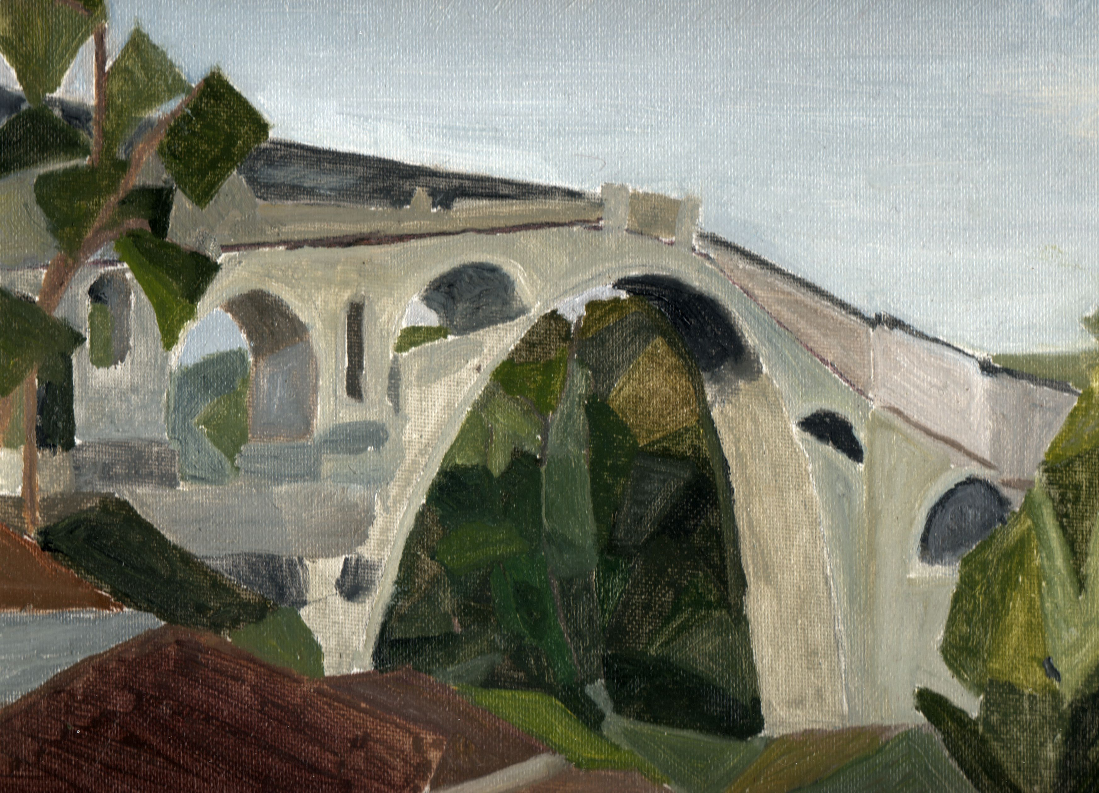 Devil's bridge, Ceret. Oil on canvas. Vincent R. 2009. Private collection.